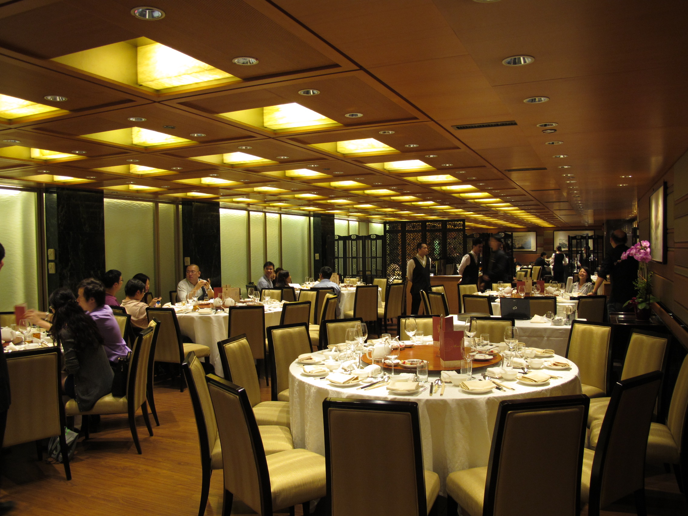 Fook Lam Moon Wan Chai Interior